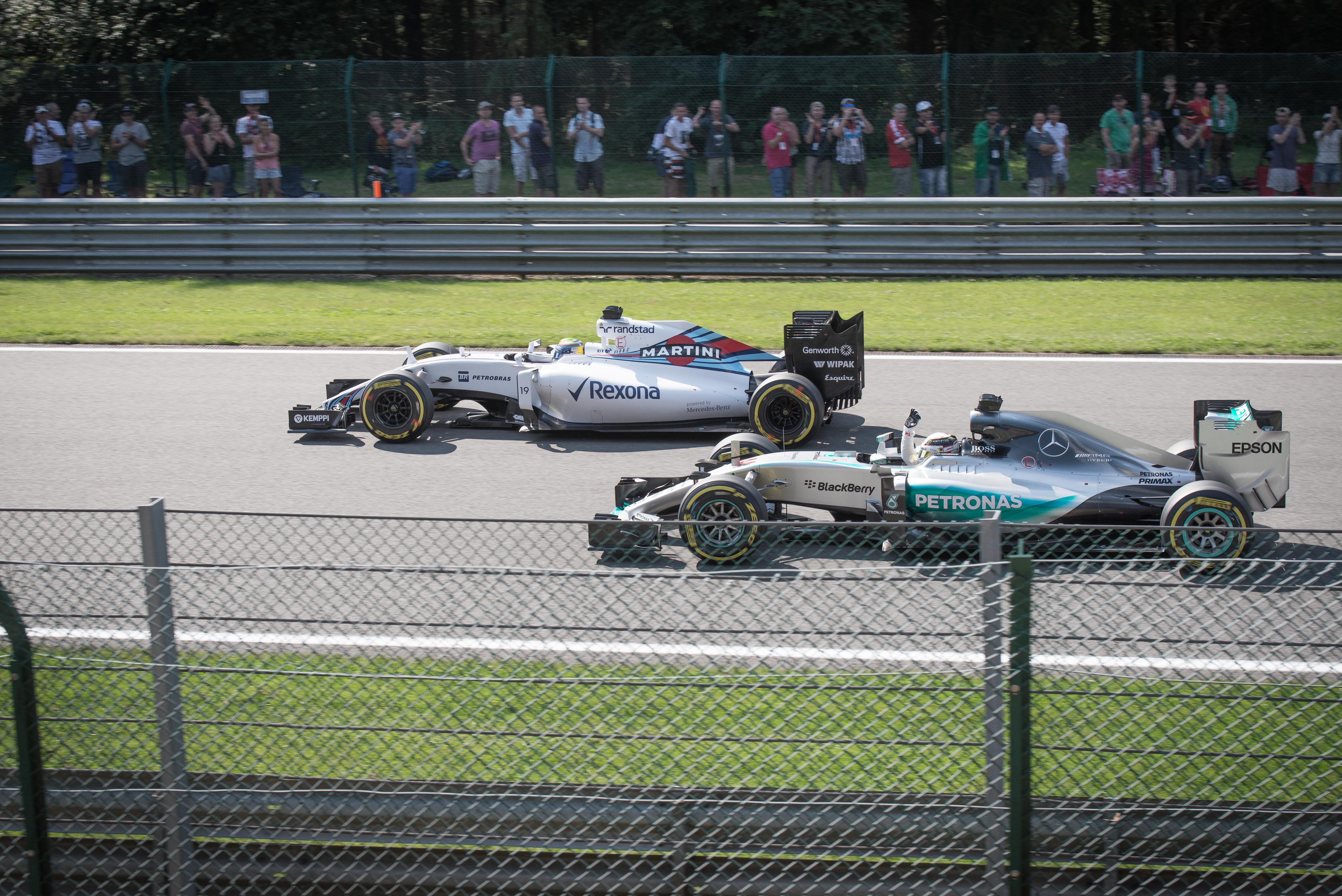 Formula 1 - 2015 Belgian Grand Prix, Spa Francorchamps #19 Felipe Massa & #44 Lewis Hamilton